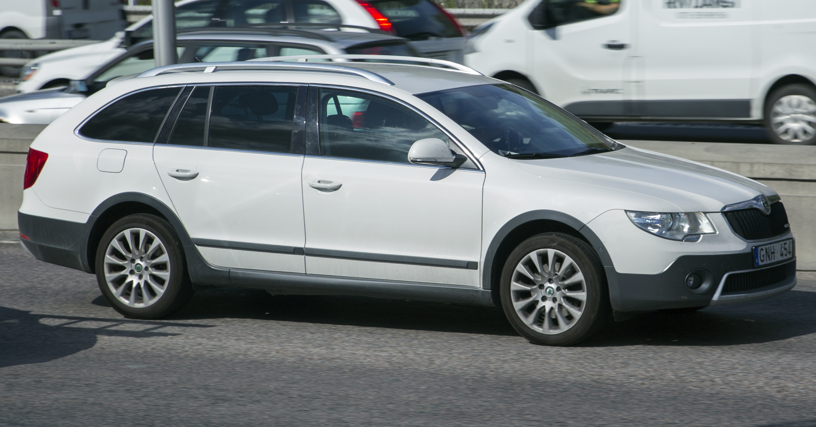 2013 Škoda Superb Combi Alldrive in Stockholm, 2.0 TDI 4x4 with 140PS and an automatic transmission. This was called the "Outdoor" model when it was launched in the rest of Europe; it features with somewhat more durable black plastic trim on the lower half, 20mm larger ground clearance, and a skid plate beneath the engine.